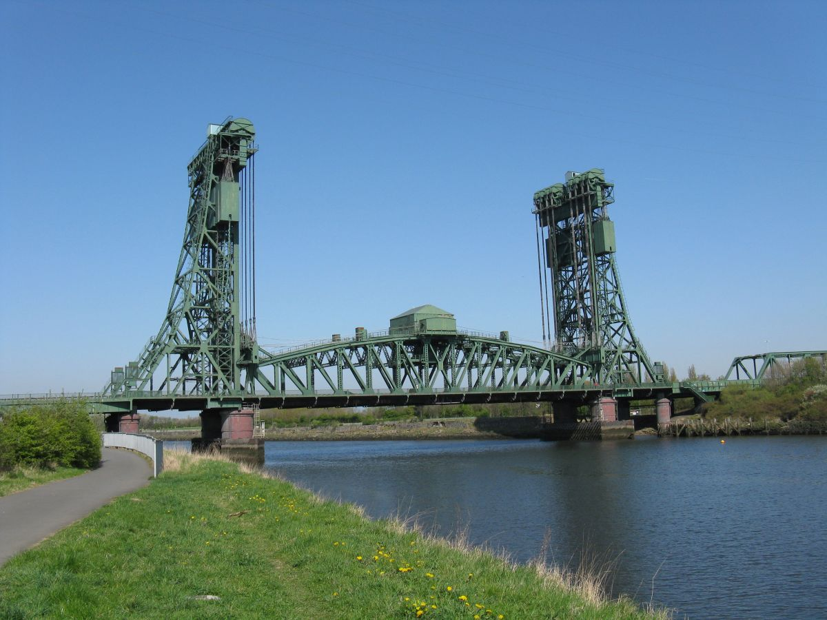 The Tees Newport Bridge viewed from the Stockton-on-Tees side.